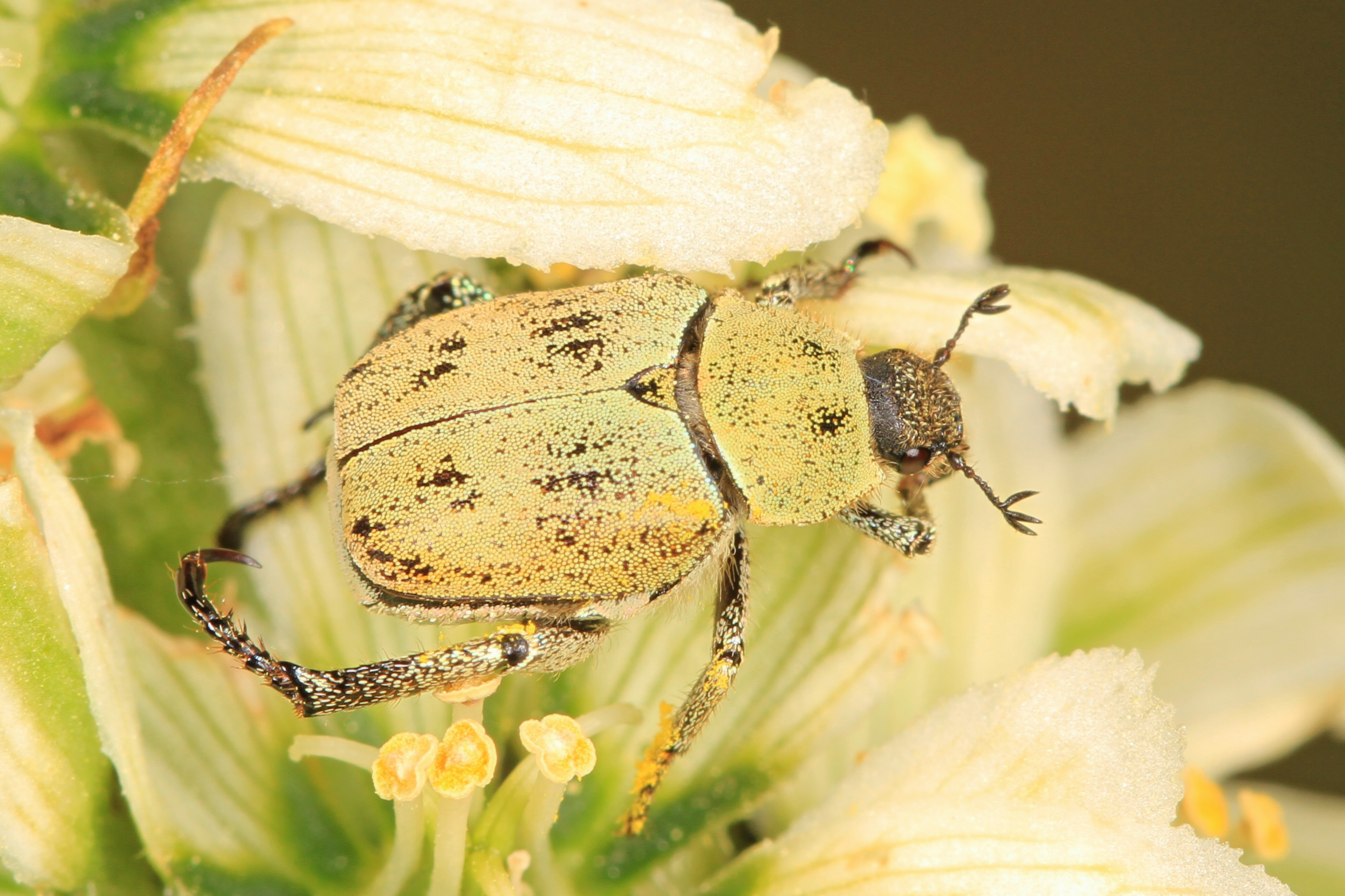 Monkey Beetle - Hoplia dispar, Packer Lake, California